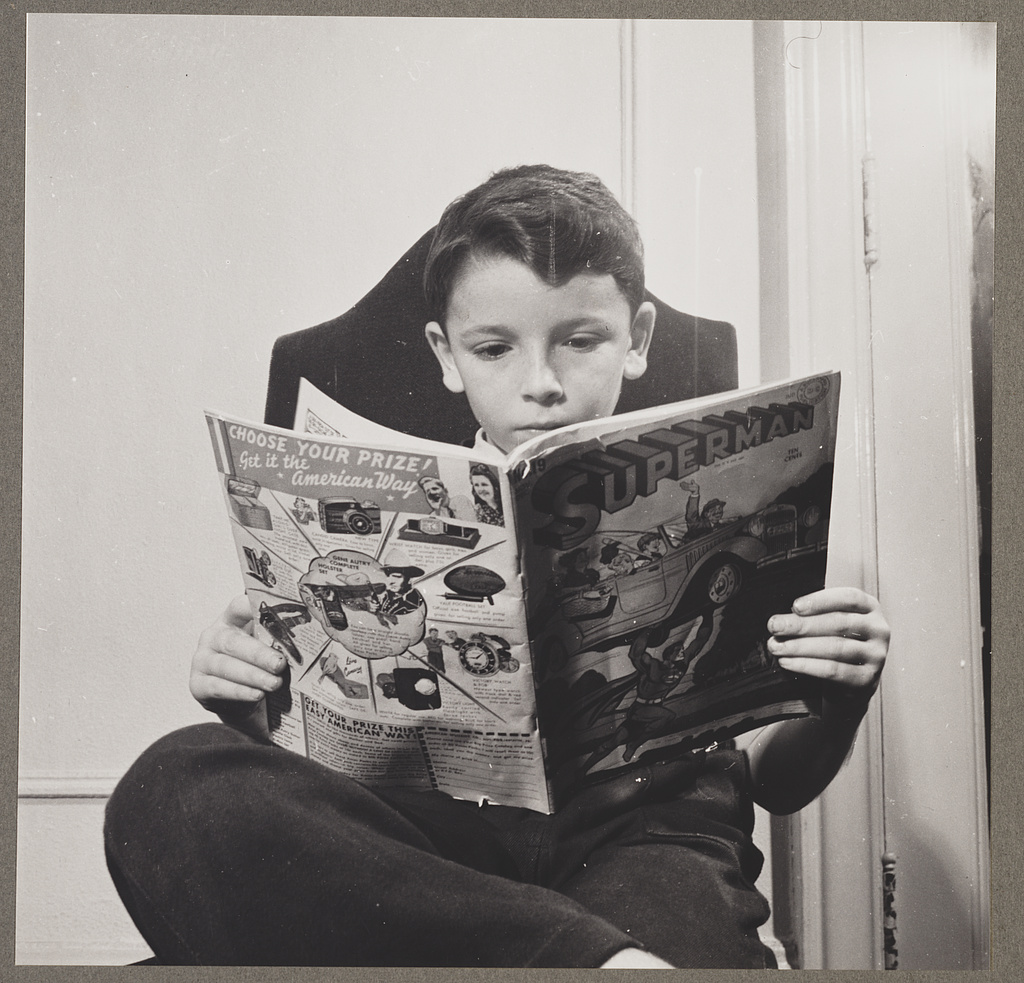 New York, N.Y. Children's Colony, a school for refugee children administered by a Viennese. German refugee child, a devotee of Superman; Photograph shows a boy reading a Superman comic book.